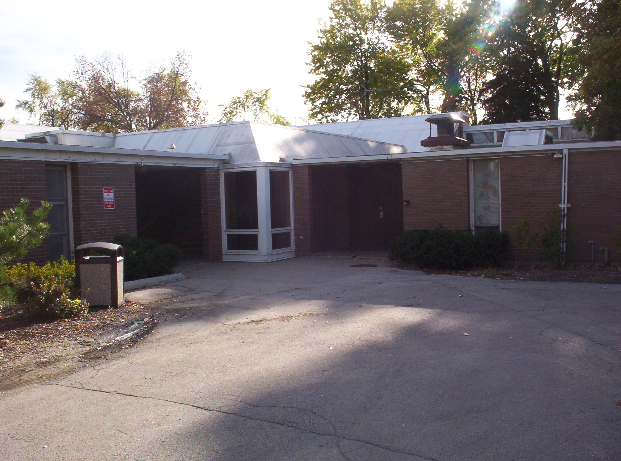 Photograph of Marshall Field House at Lake Forest Academy. I took this photo myself and hereby release all rights. Dylan